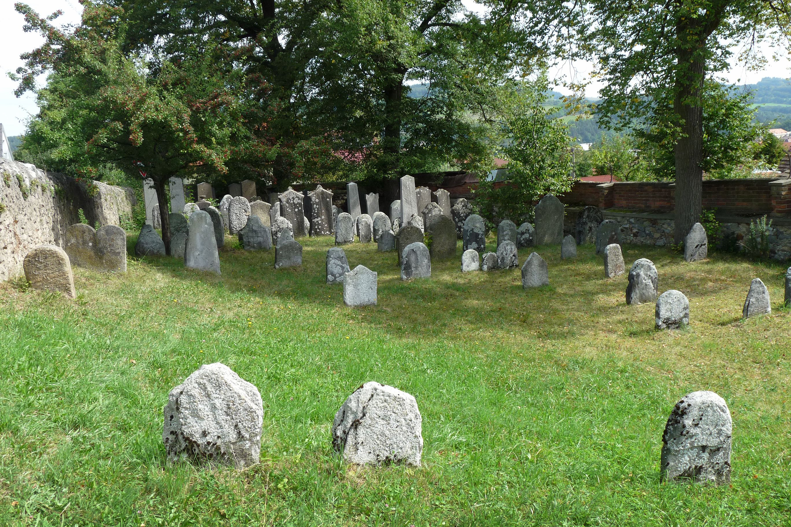 Jewish cemetery in the town of Volyně, Strakonice District, Czech Republic